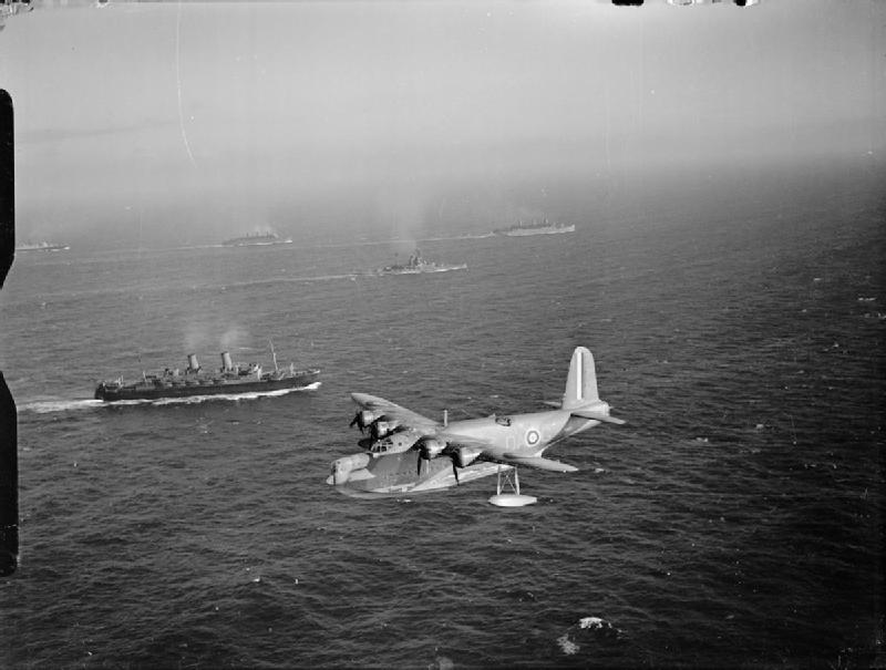 Aircraft of the Royal Air Force 1939-1945- Short S.25 Sunderland of No. 210 Squadron RAF, identified by squadron code DA on fuselage, on convoy duty.